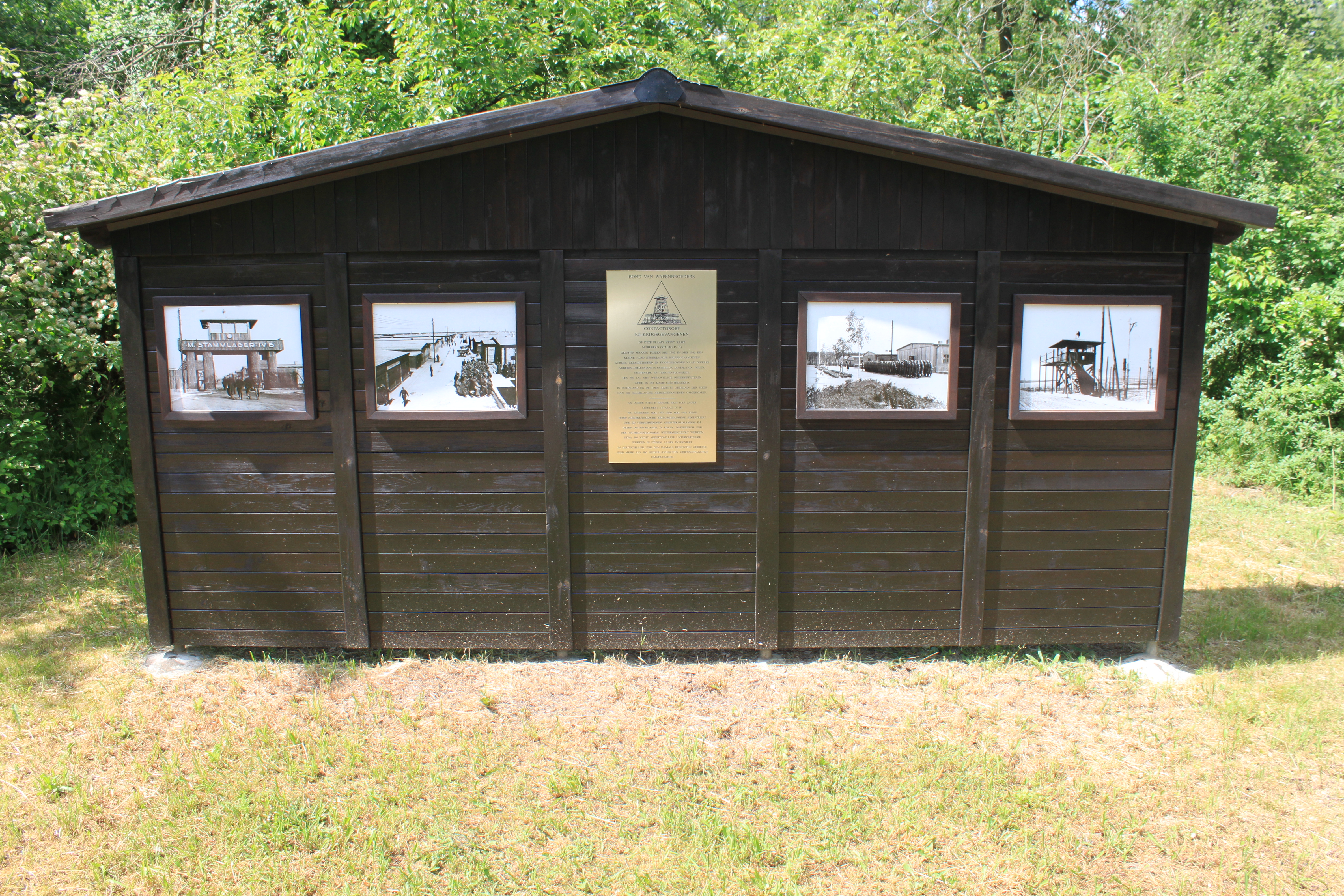 Infoboard of Stalag IV-B